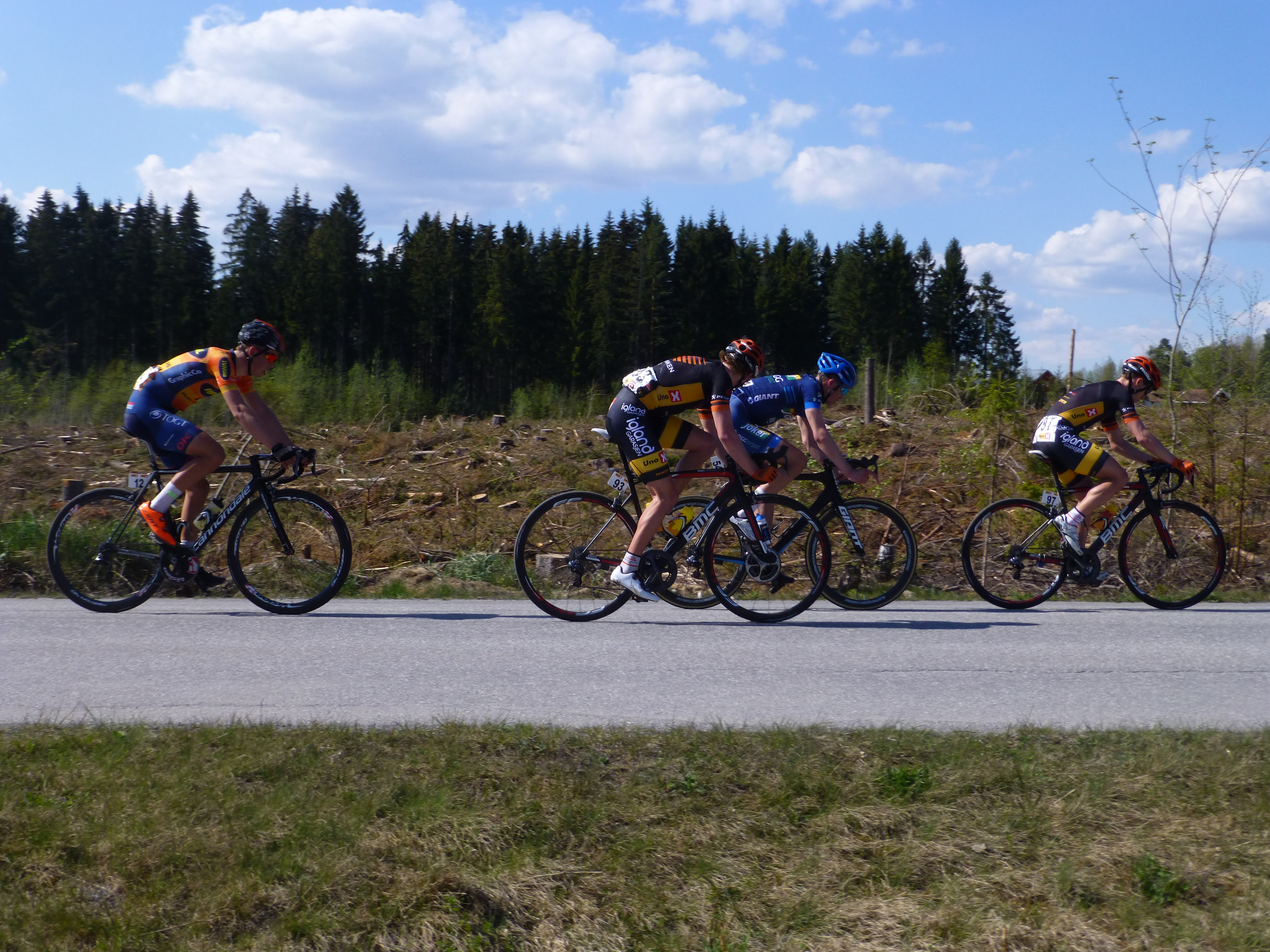 Ringerike Grand Prix 2016 - Trond Håkon Trondsen (97) in front of Bjørn Tore Hoem (54), Carl Fredrik Hagen (93) and Jonas Gregaard Wilsly (12).